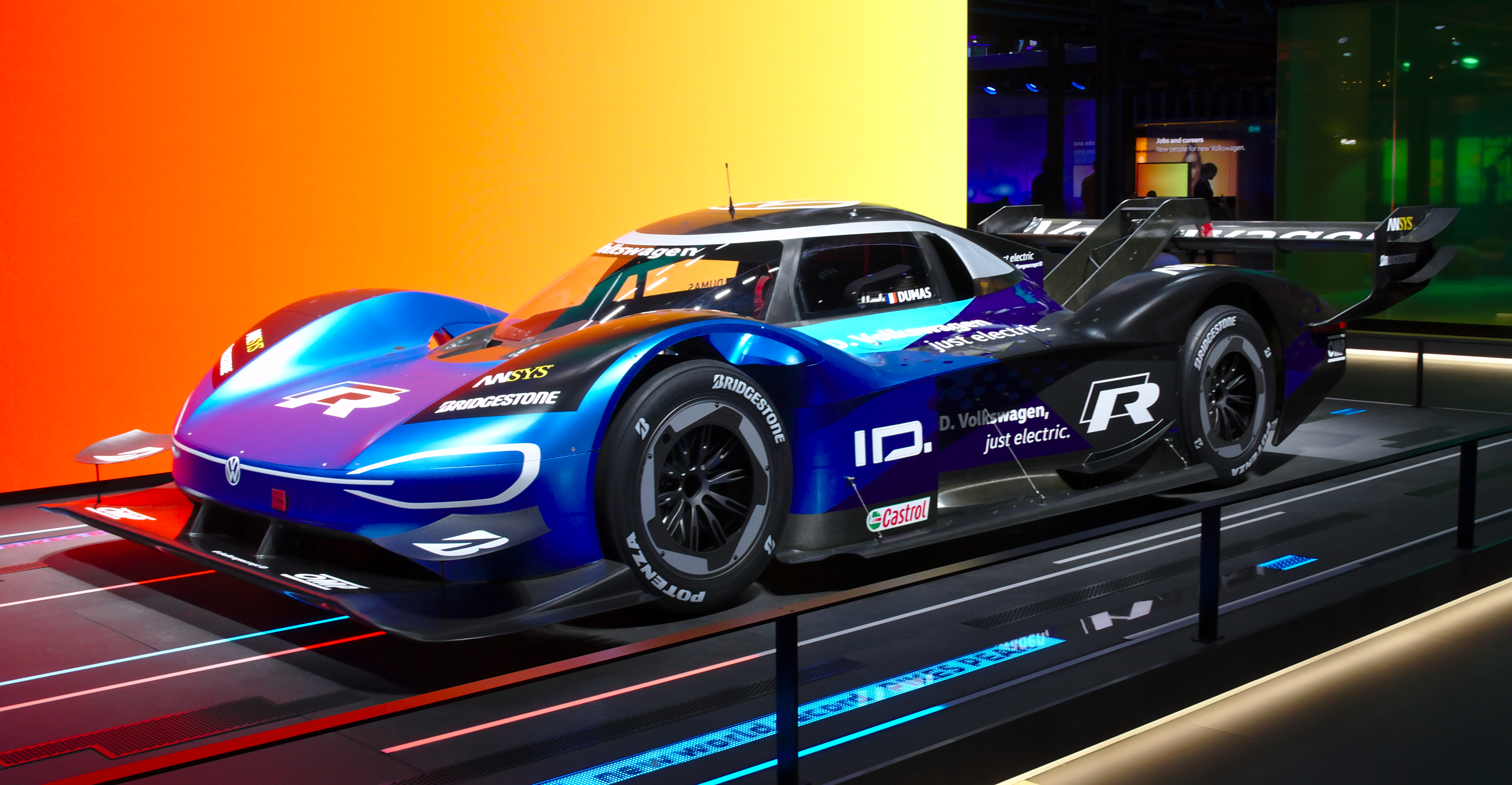 Volkswagen I.D. R Pikes Peak at IAA 2019